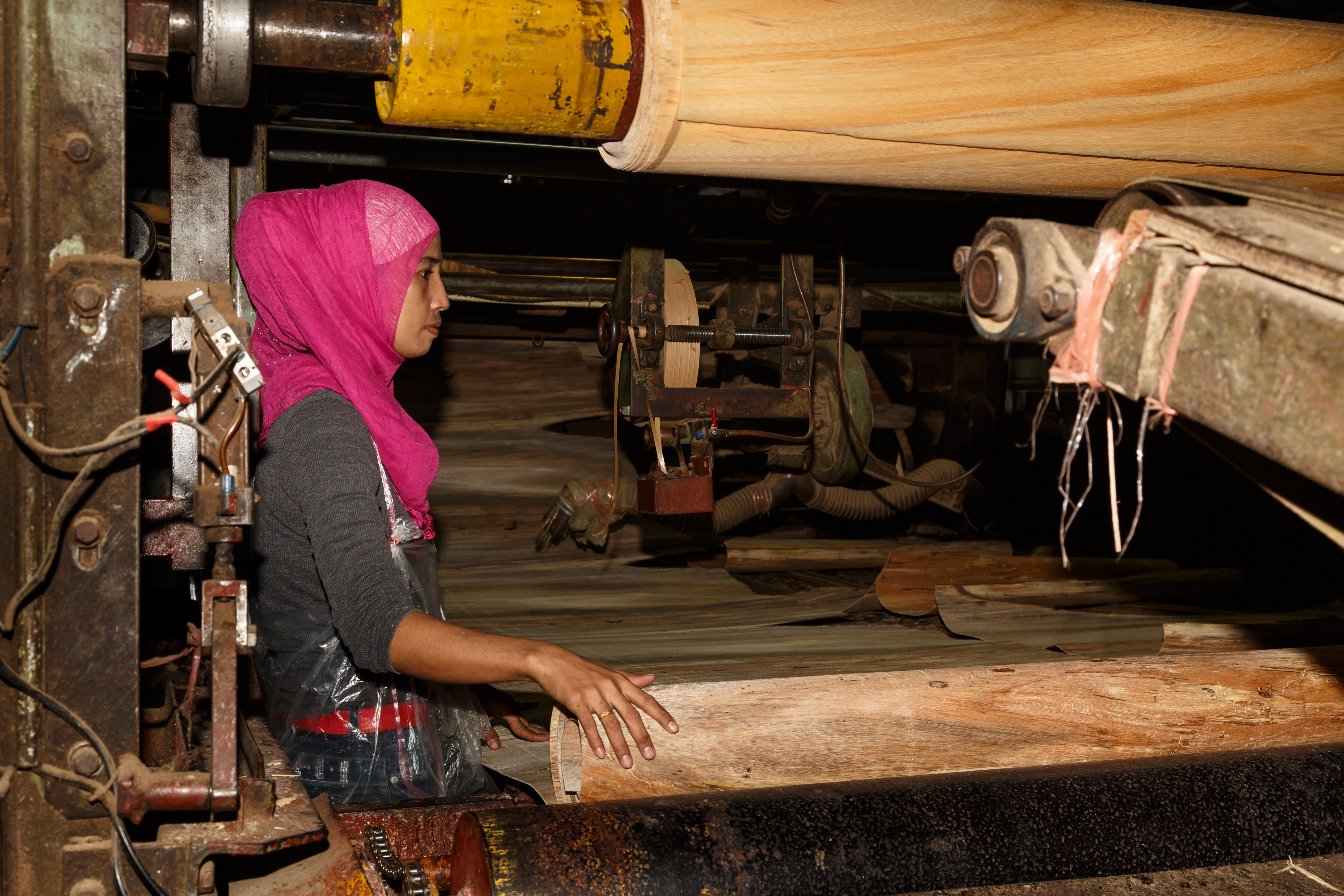 Sandakan, Sabah: Plywood Factory; A worker at the veneer outlet of the TAIHEI Veneer Peeling Lathe